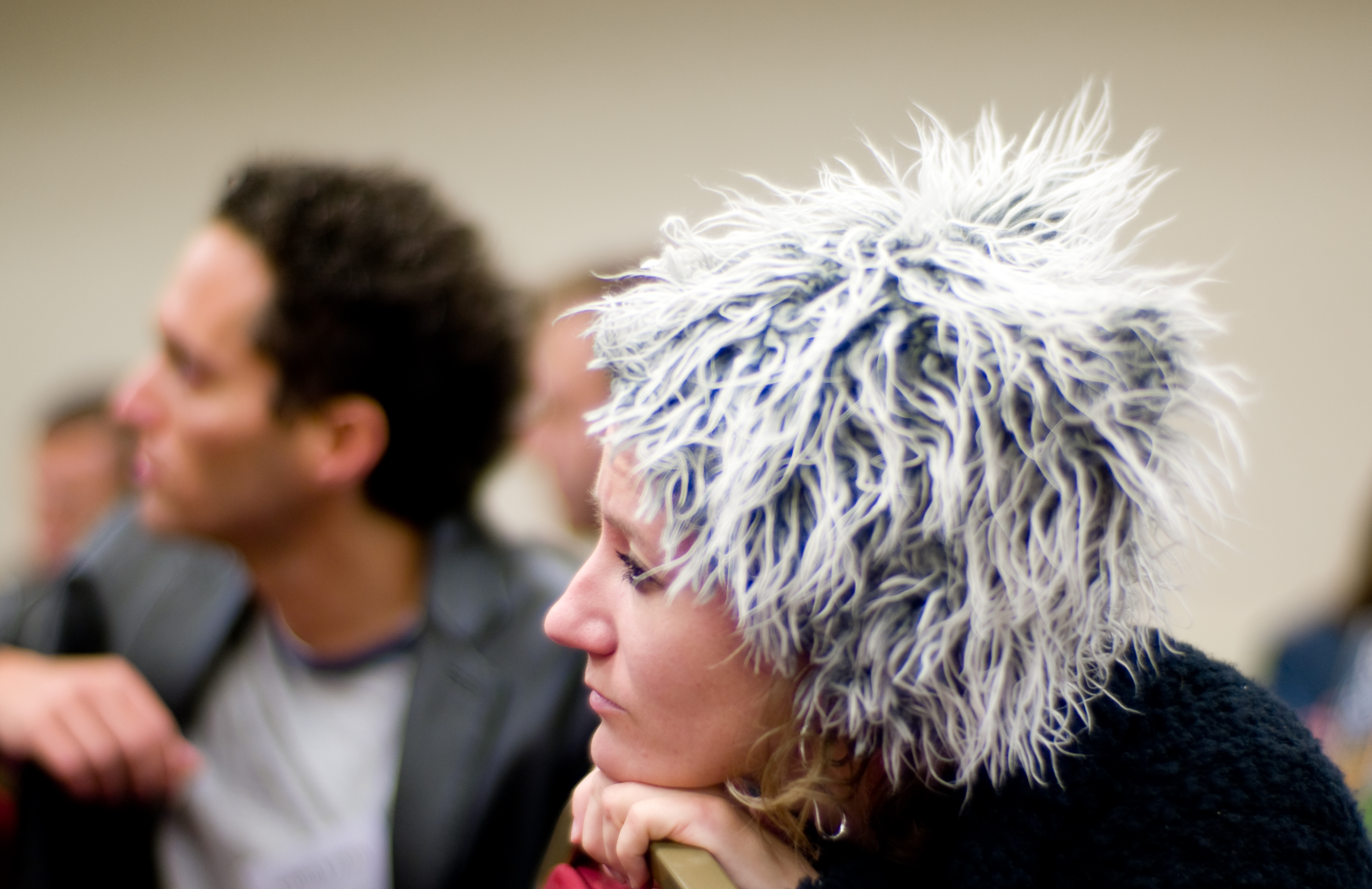 danah boyd